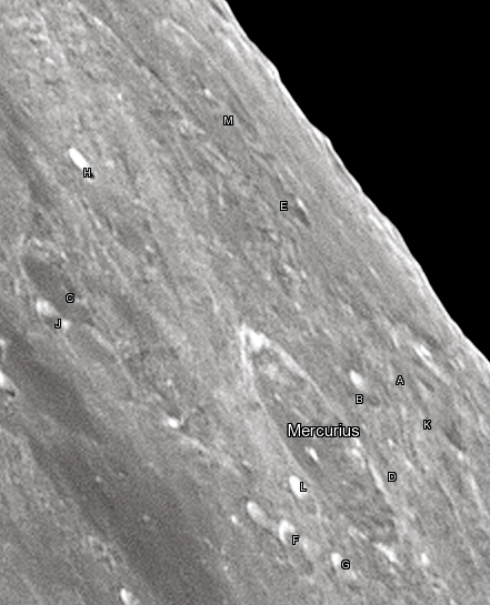 Mercurius lunar crater as seen from Earth with satellite craters labeled